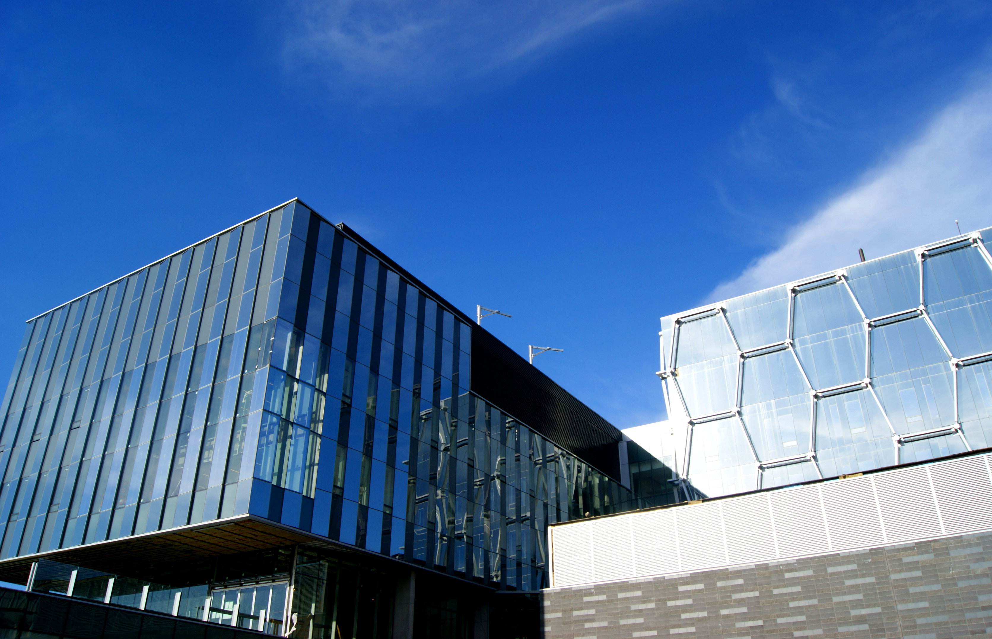 Taken before its completion in September